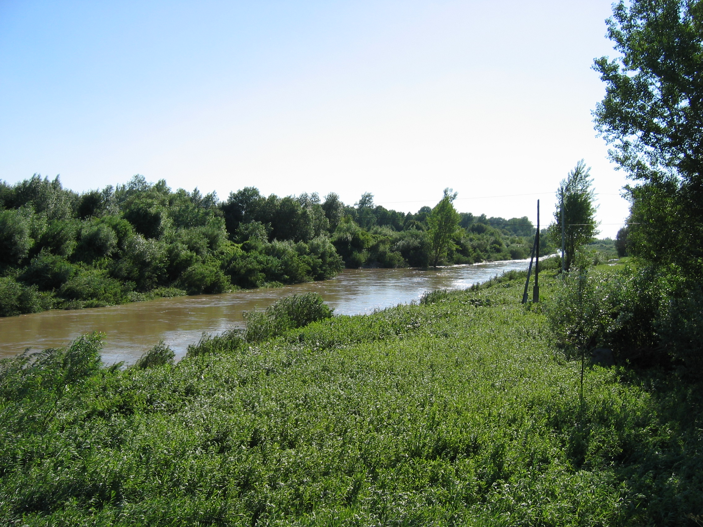 Wisłoka in Mielec